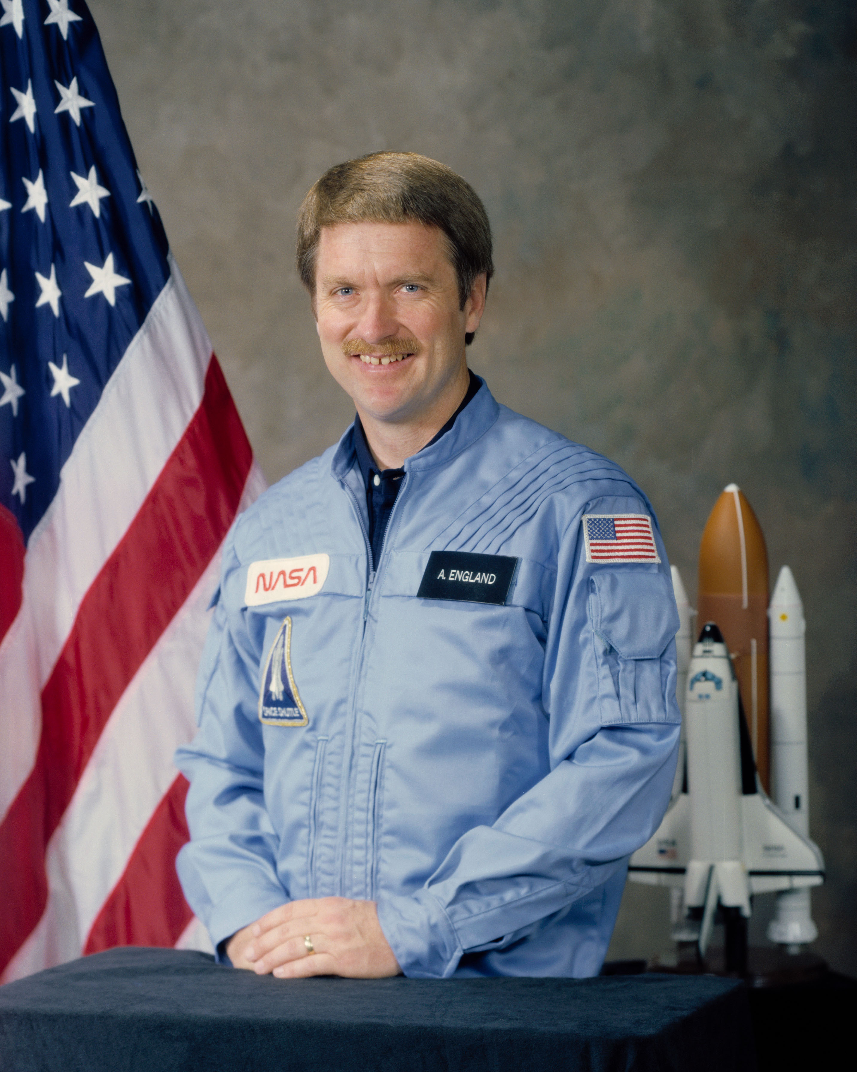 Portrait of Astronaut Anthony W. England, dressed in the Shuttle blue flight suit.